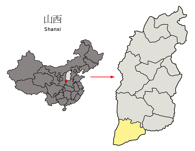 Location of Yuncheng Prefecture (yellow) within Shanxi Province of China Map drawn in december 2007 using various sources, mainly : Shanxi Province administrative regions GIS data: 1:1M, County level, 1990 Shanxi Counties map from